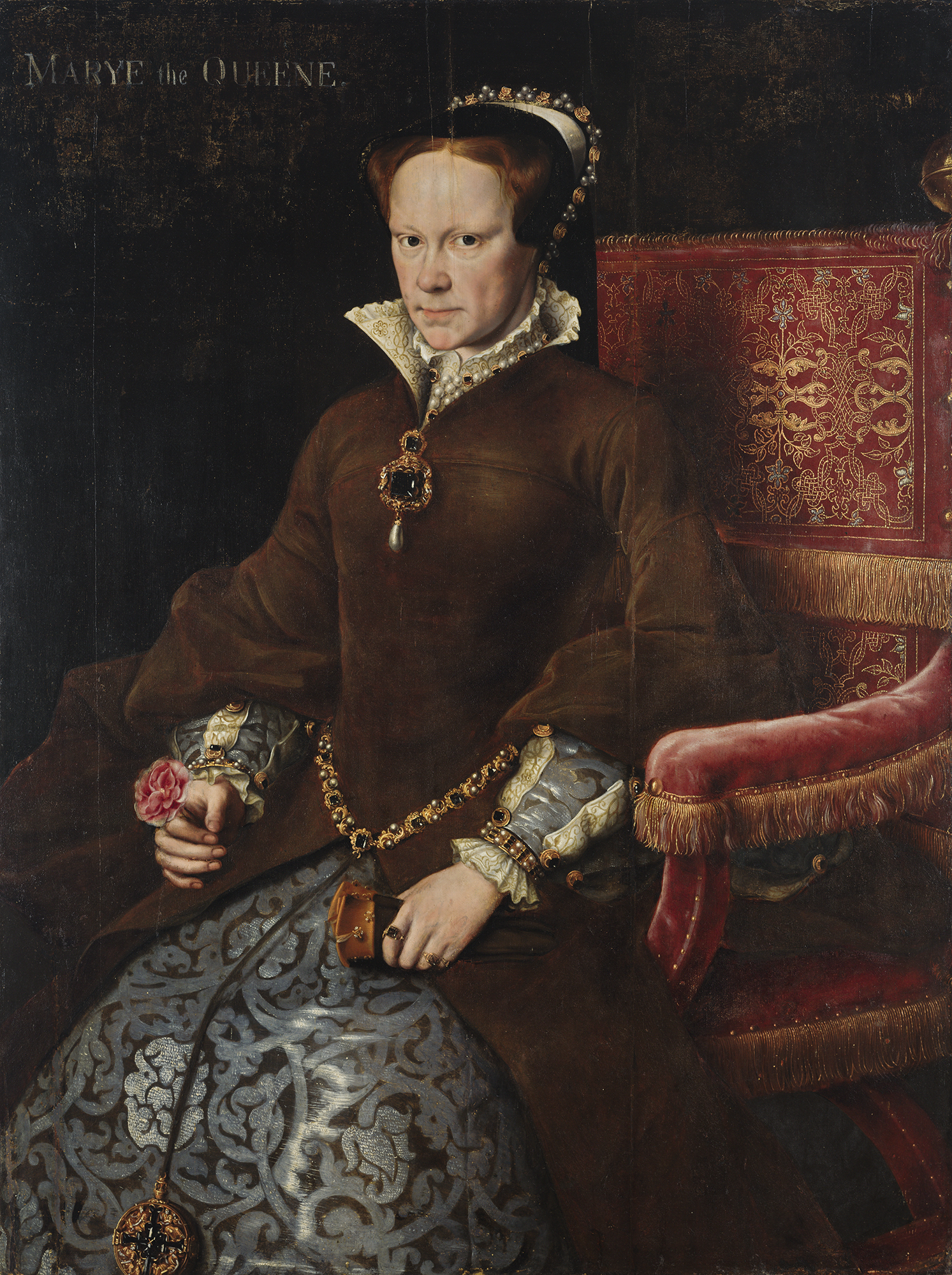 another version of the painting in the Prado. This is in the Isabella Stewart Gardner Museum, Boston, MA, USA